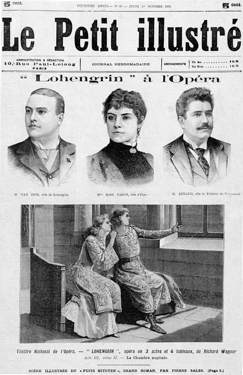 Wagner's Lohengrin at the Paris Opera in 1891.Top: Ernest Van Dyck (1861-1923) as Lohengrin, Rose Caron (1857-1930) as Elsa of Brabant, Maurice Renaud (1861-1933) as Friedrich of Telramund.Bottom: Act III, Scene I, The bridal chamber.